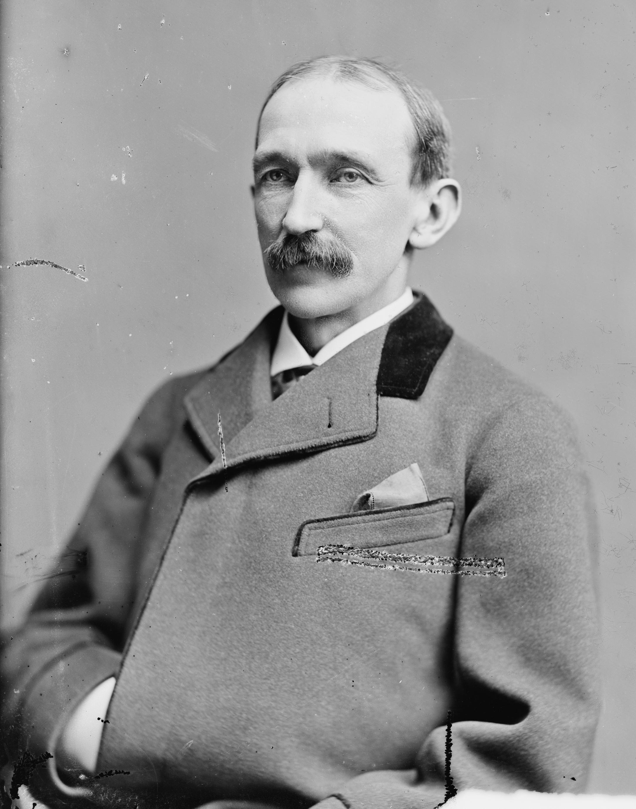 Wayne MacVeagh. Library of Congress description: "MacVeagh, Hon. Wayne Atty-General".